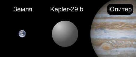 Comparative sizes of Earth, Kepler-29 b and Jupiter.